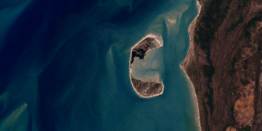 Landsat image of Crab Island, off Cape York Peninsula, Torres Strait Islands, Queensland, Australia